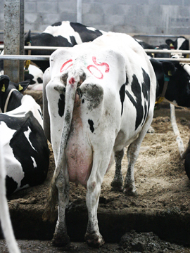 2009 Sauen